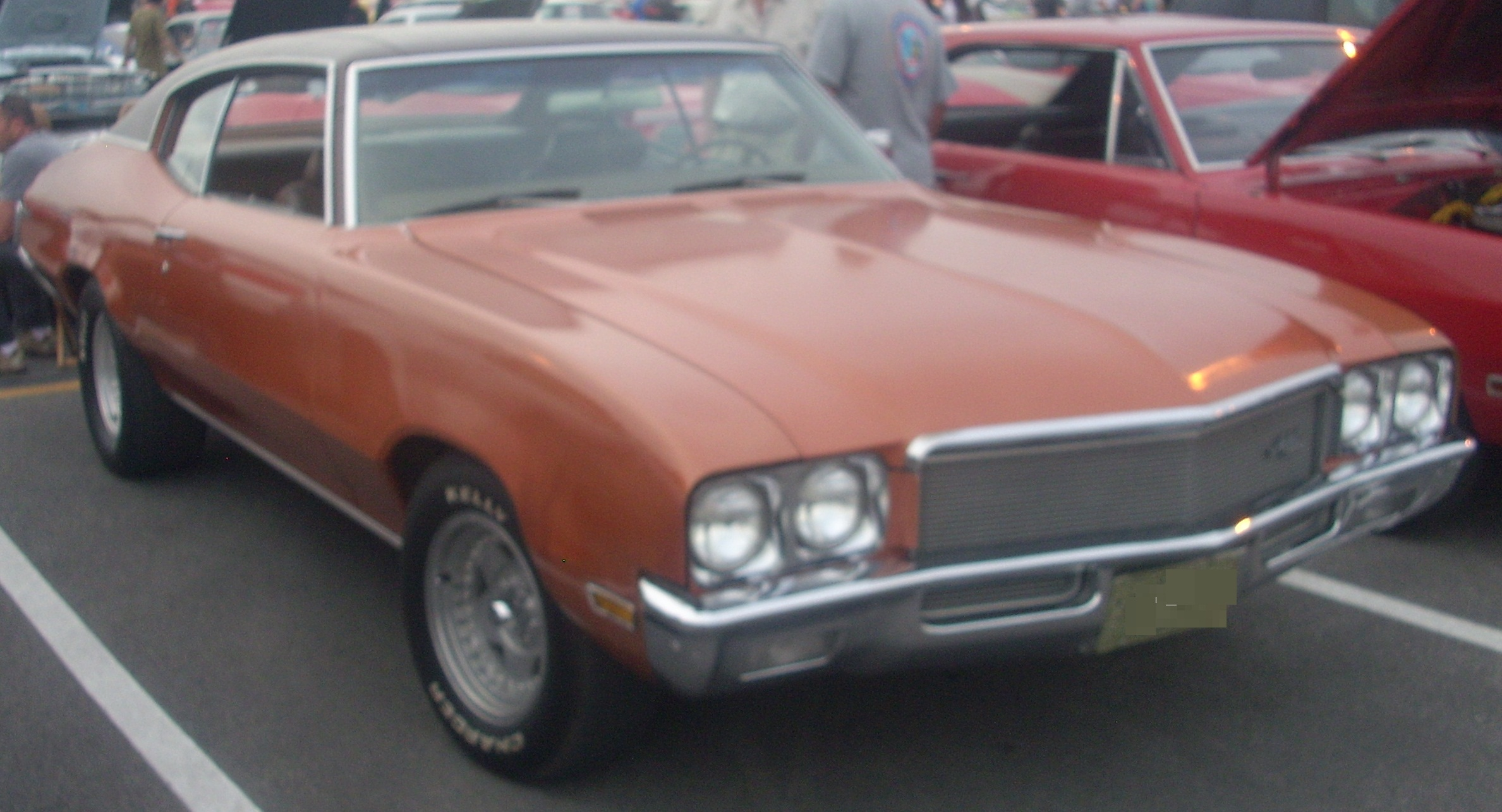 1971 Buick Skylark photographed in Laval, Quebec, Canada at Centropolis Laval.